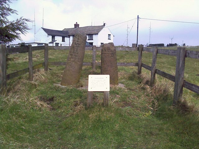 The Bowstones A Historical site above Lyme Park on the Gritstone Trail